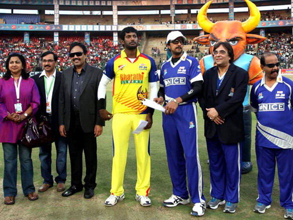 Crew of Celebrity Cricket League.